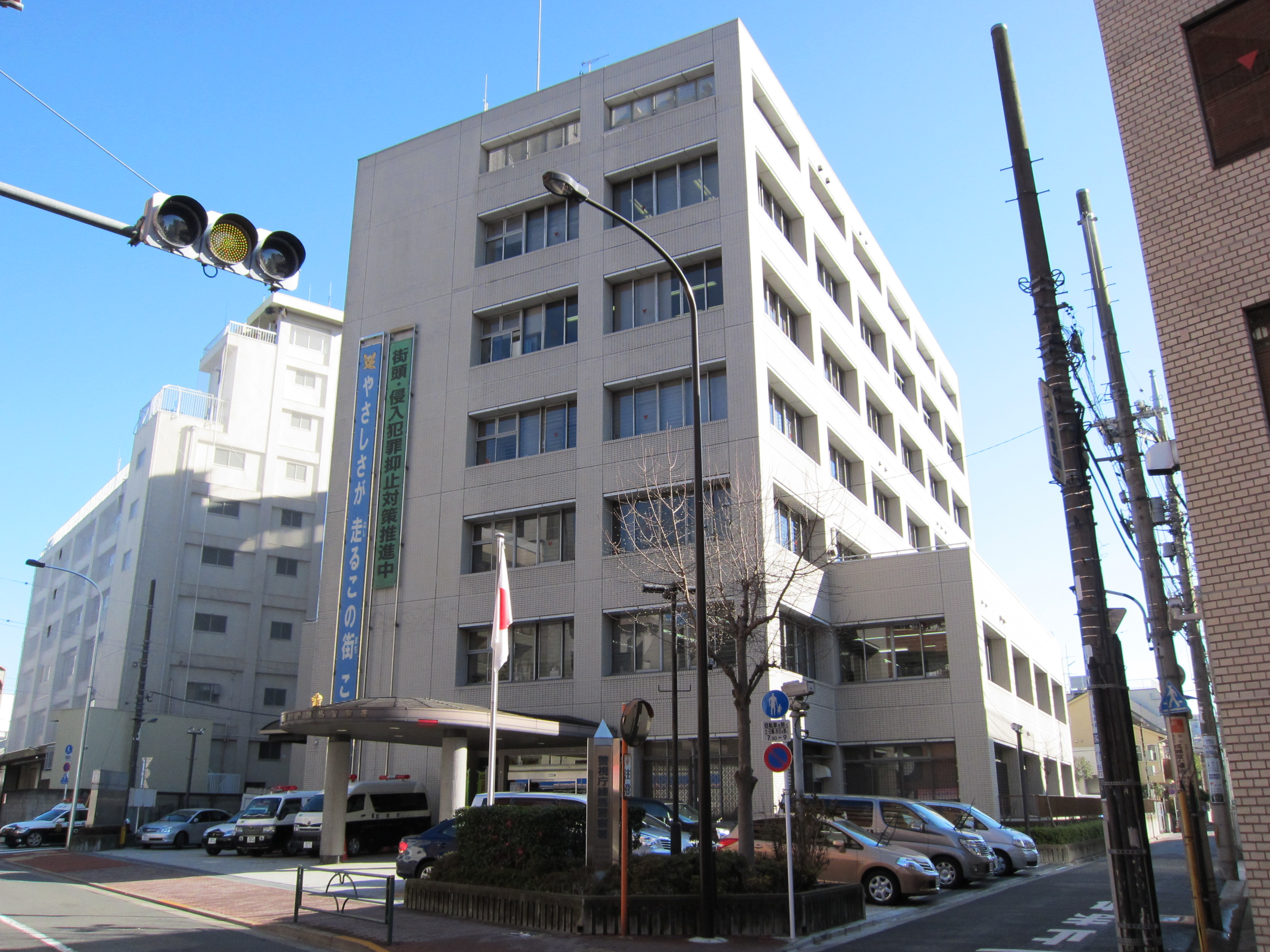 Nerima Police Station